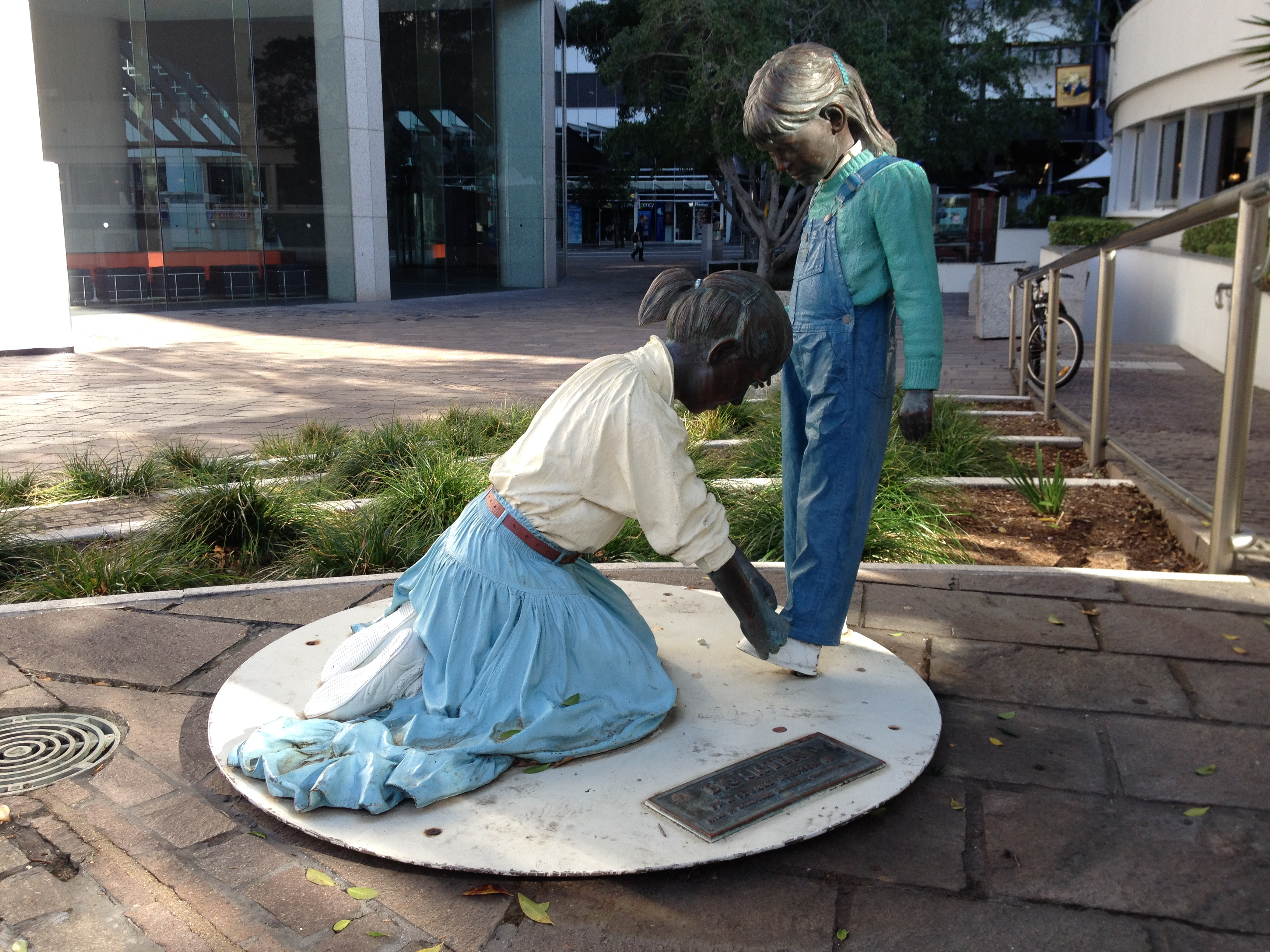 Big Sister sculpture by J. Seward Johnson Jr, next to Pig N Whistle Pub in Eagle Street, Brisbane